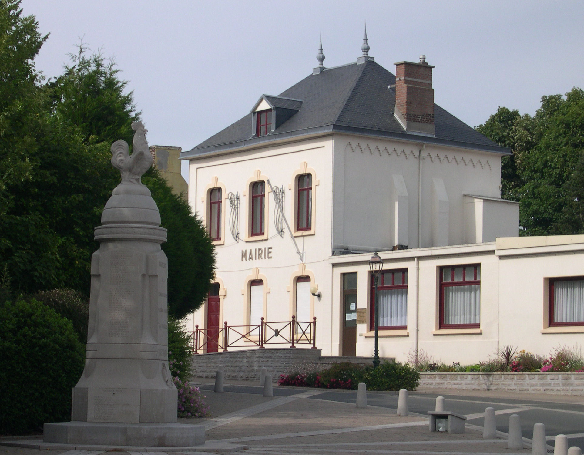 Photograph of the town-hall of Rinxent , town of the North of France